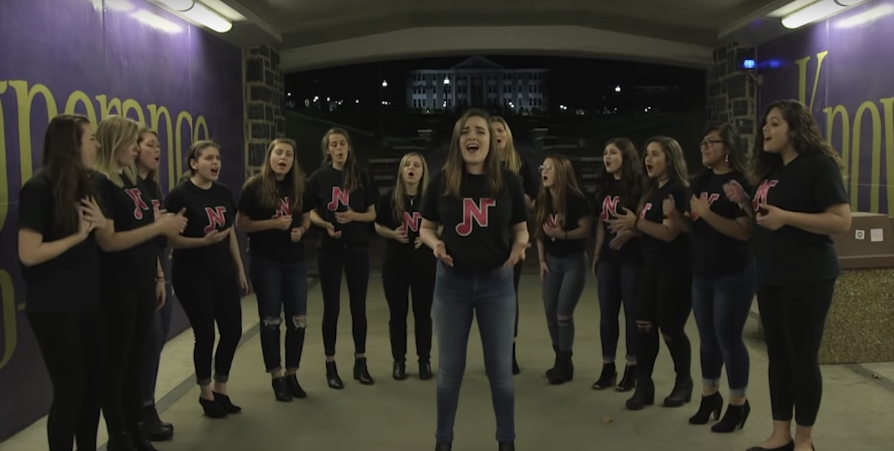 Note-oriety performing "I Don't Think About You" in the Forbes tunnel at James Madison University